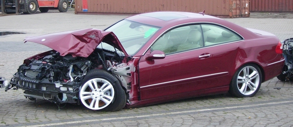 A crashed Mercedes-Benz coupé